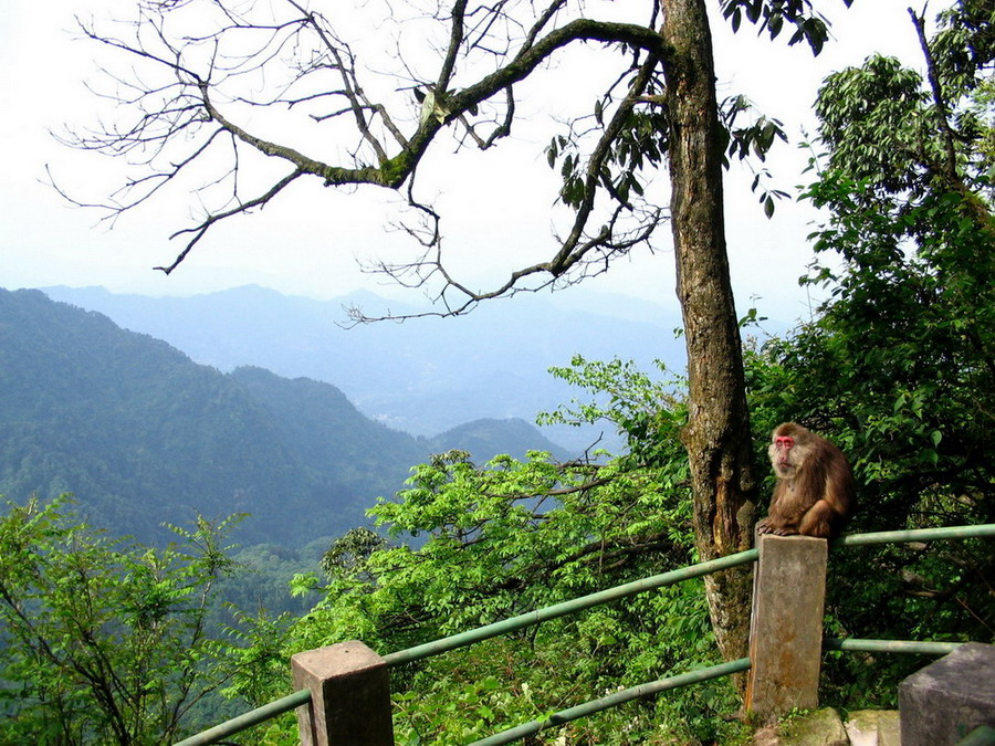 Macaque Monkey on Emeishan Mountain, Sichuan, China.